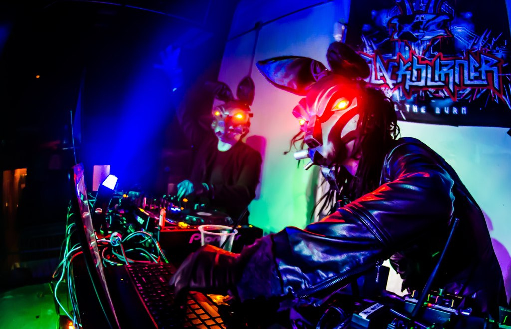 Blackburner performing at Soho Mixed Media Bar, Honolulu Hawaii, which was promoted by Nephilim Halls productions.